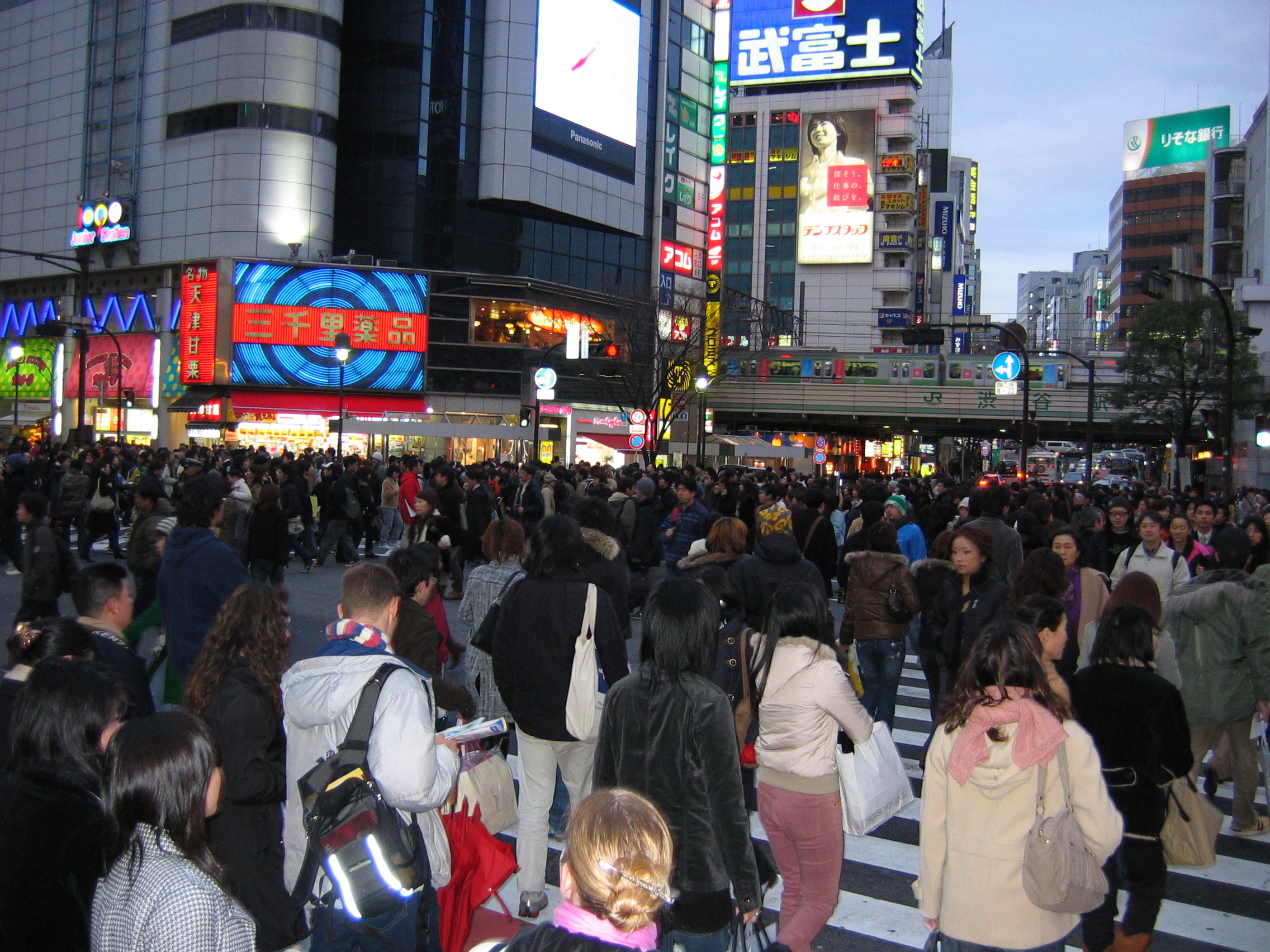 Tokyo - Downtown : Crowd at a crossroad.